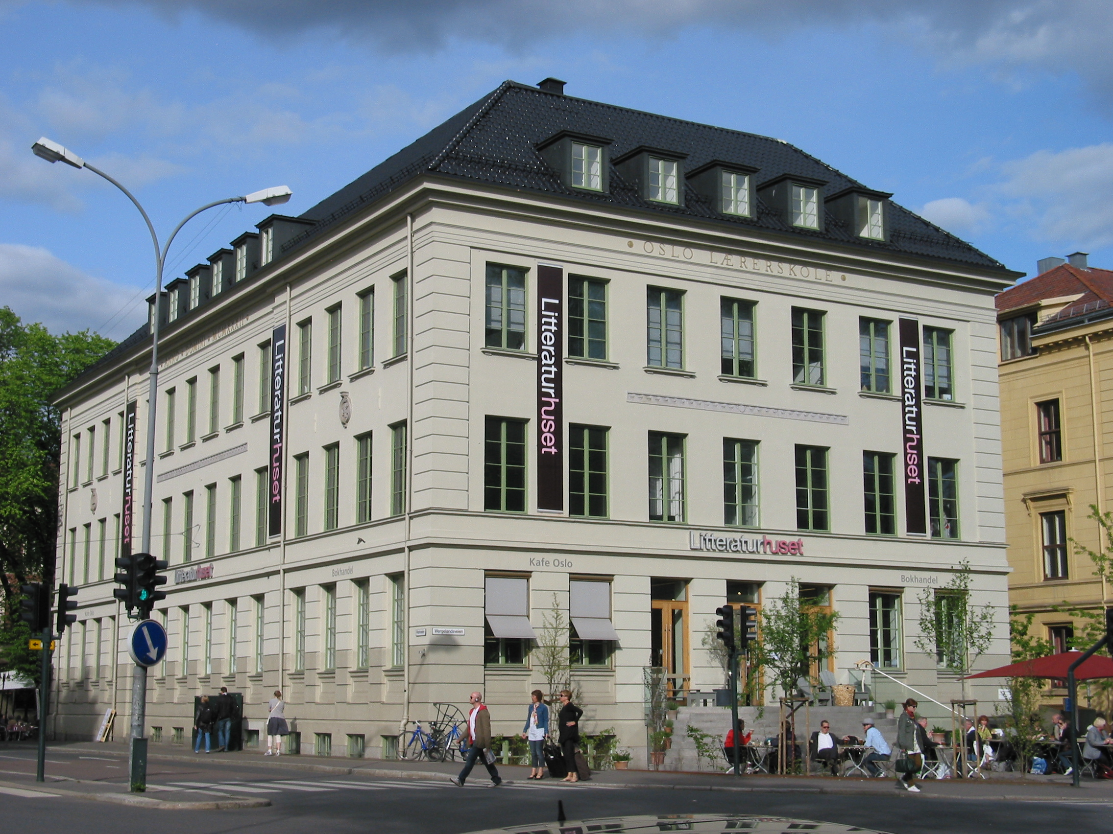 Litteraturhuset, Oslo, Norway.